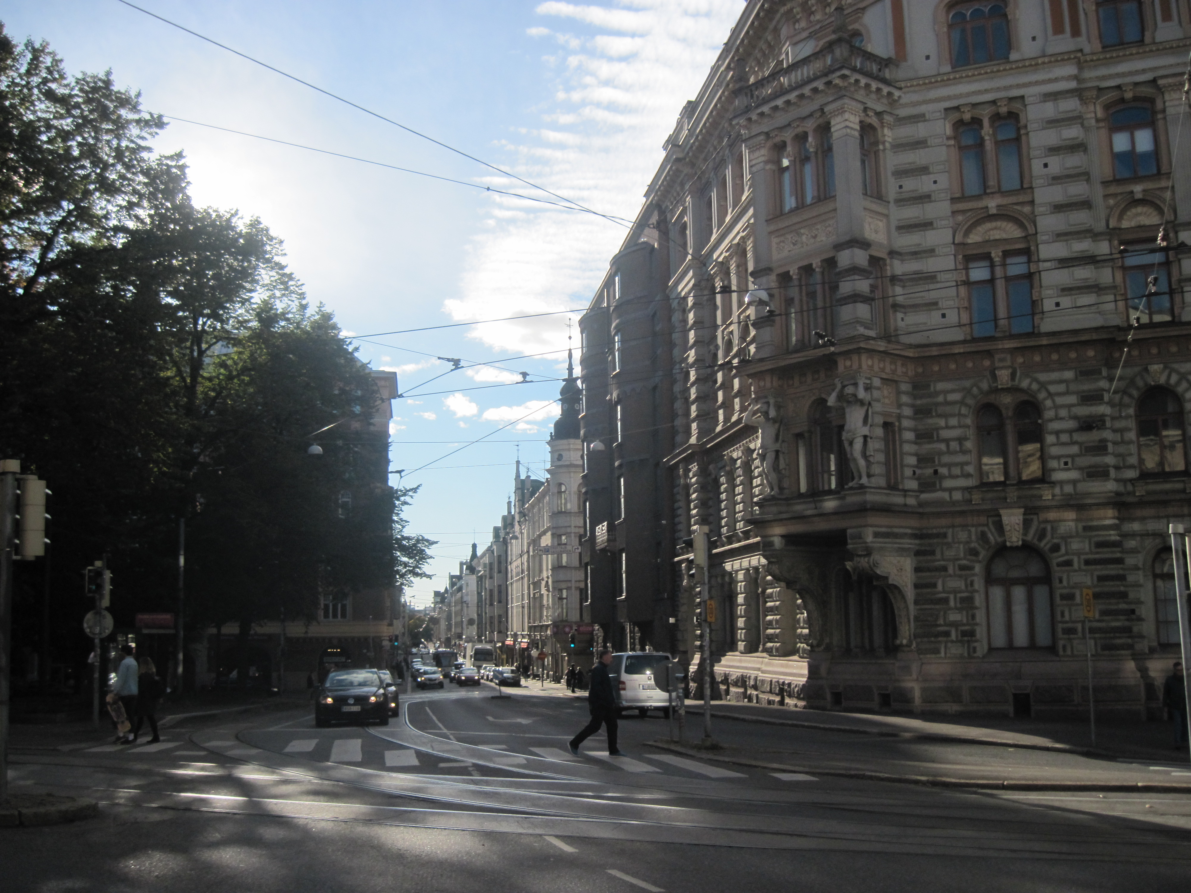 Uudenmaankatu in Helsinki